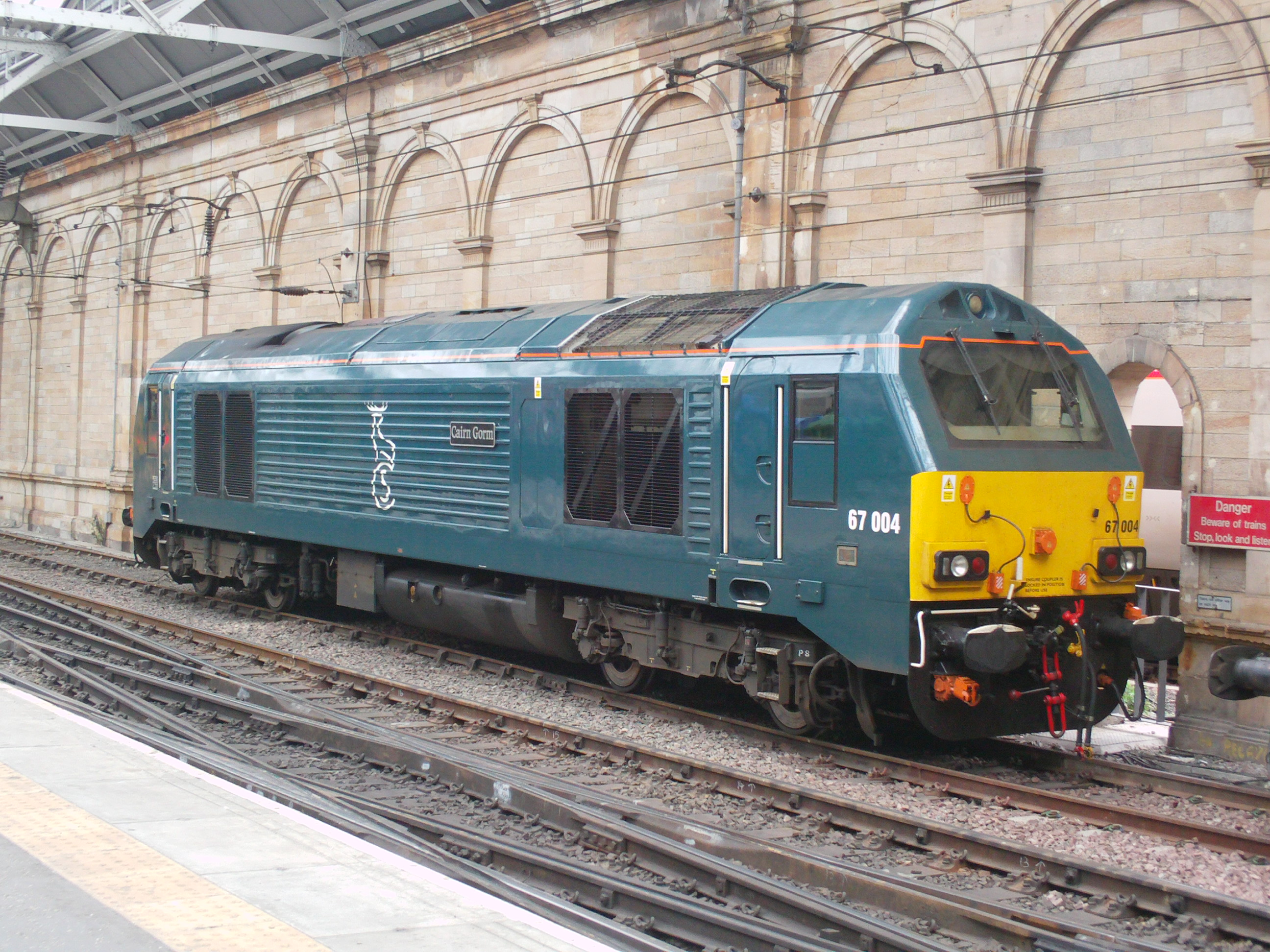 67004 Stands at Edinburgh Waverley